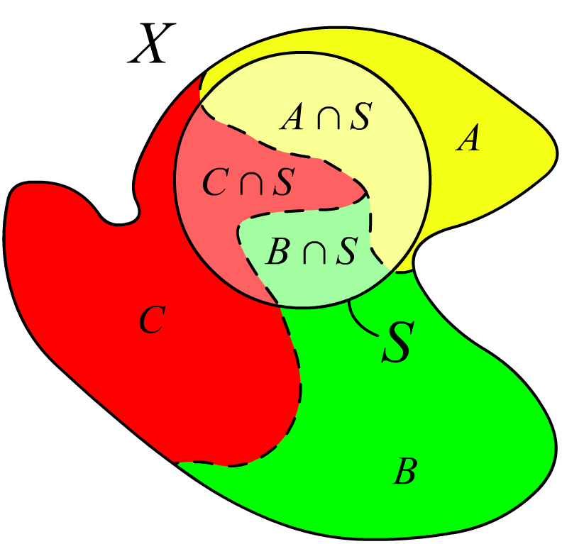 Subspace topology. Illustration.